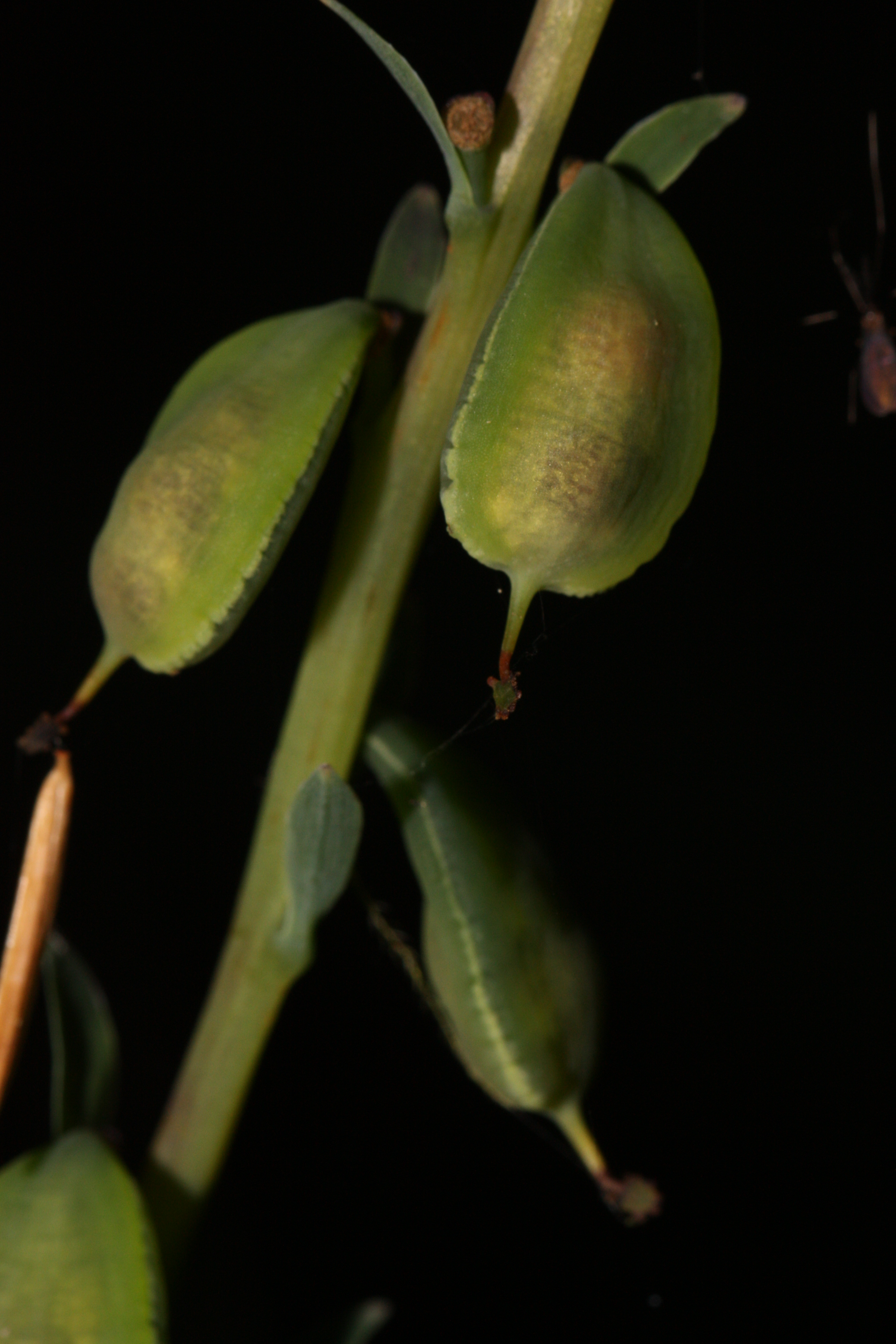 Scouler's Fumewort